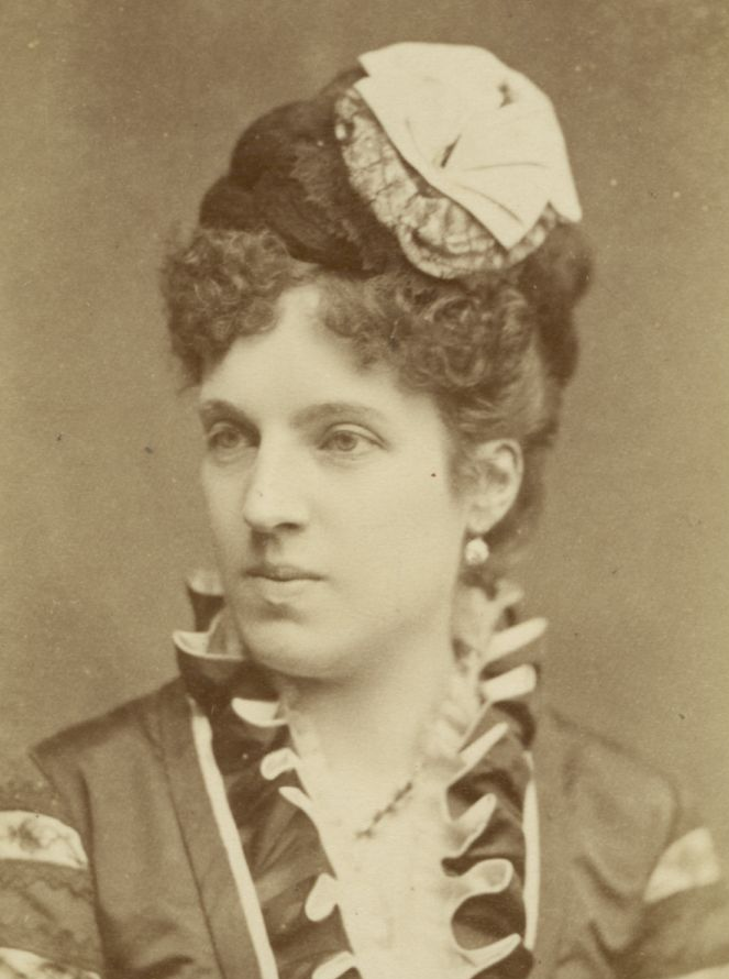 Artist: J.C. Schaarwächter (1847-1904) Date/place: Unknown date/Berlin Subject: Zelia Trebelli-Bettini Medium: Photographic posetive Notes: French opera singer. Born in Paris 1838 - dead in1892. Original belongs to the Archives at [#//bergenbibliotek.no/digitale-samlinger” Bergen Public Library]